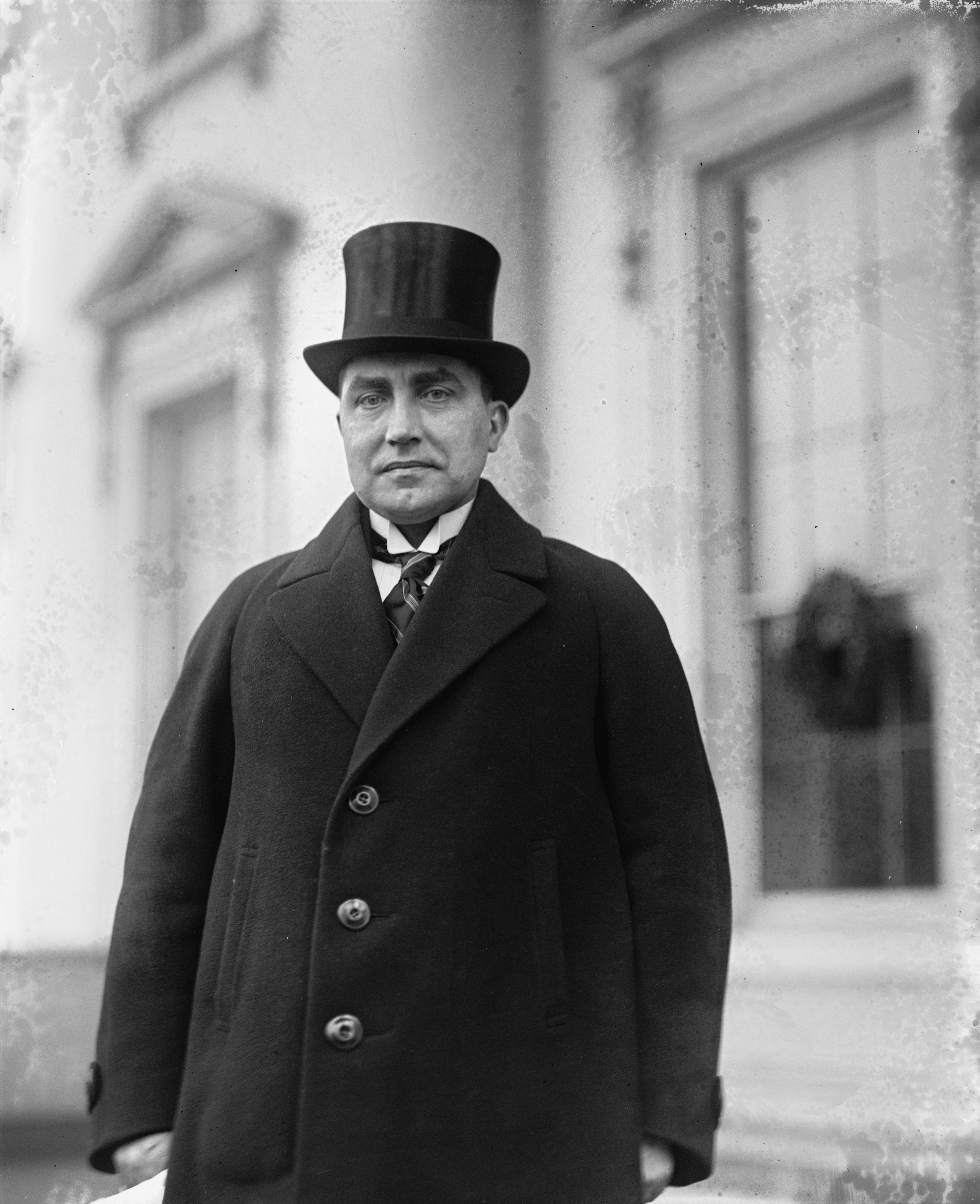 Ants Piip, Estonian politician, pictured on the day he "presented credentials as Estonian minister to the United States" ([1]). Taken at the North Portico of the White House (judging from the background of the photo).